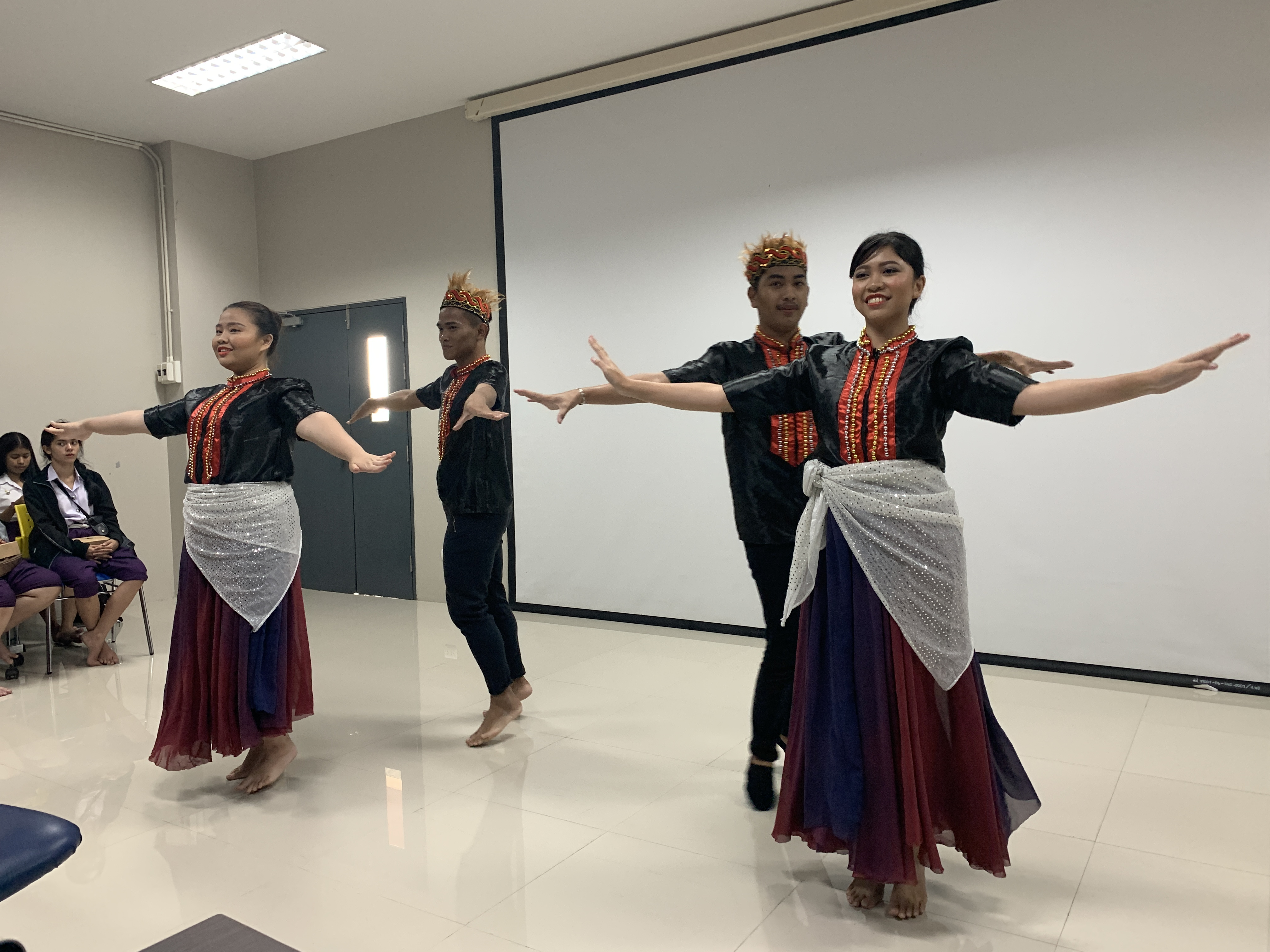 Sumazau dance by PERSIS USM at Thaksin University